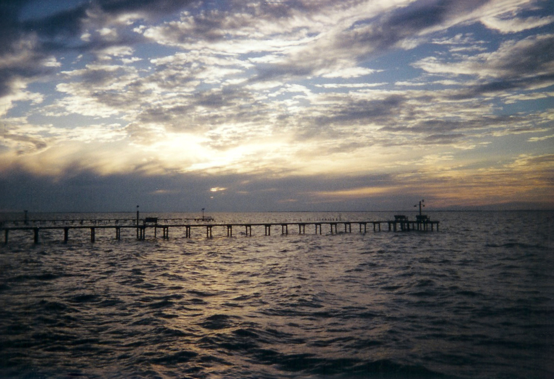 Copano Bay